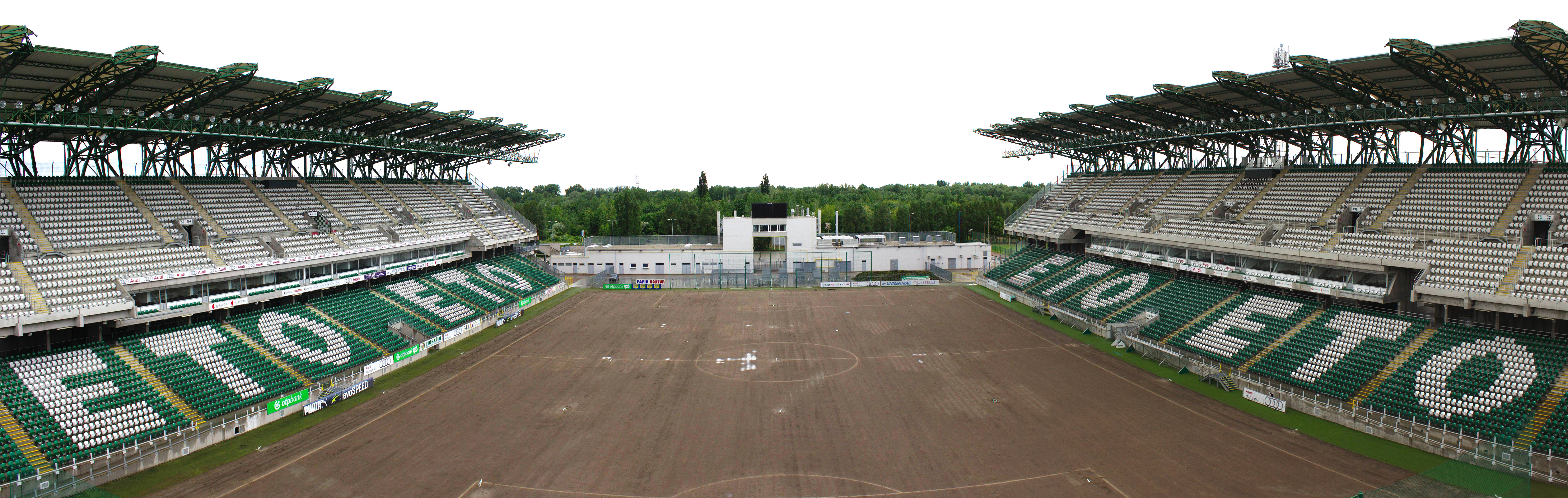 View of ETO Park stadium in Győr from a room in the ETO Park Hotel.